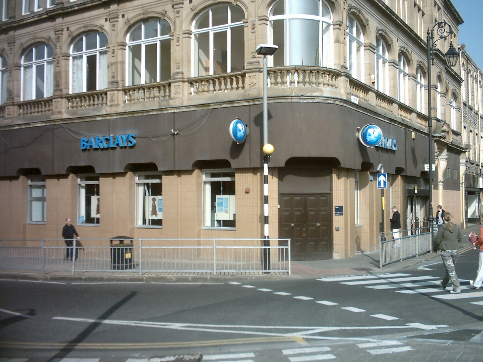 Barclays on Queen Street, Morley, West Yorkshire